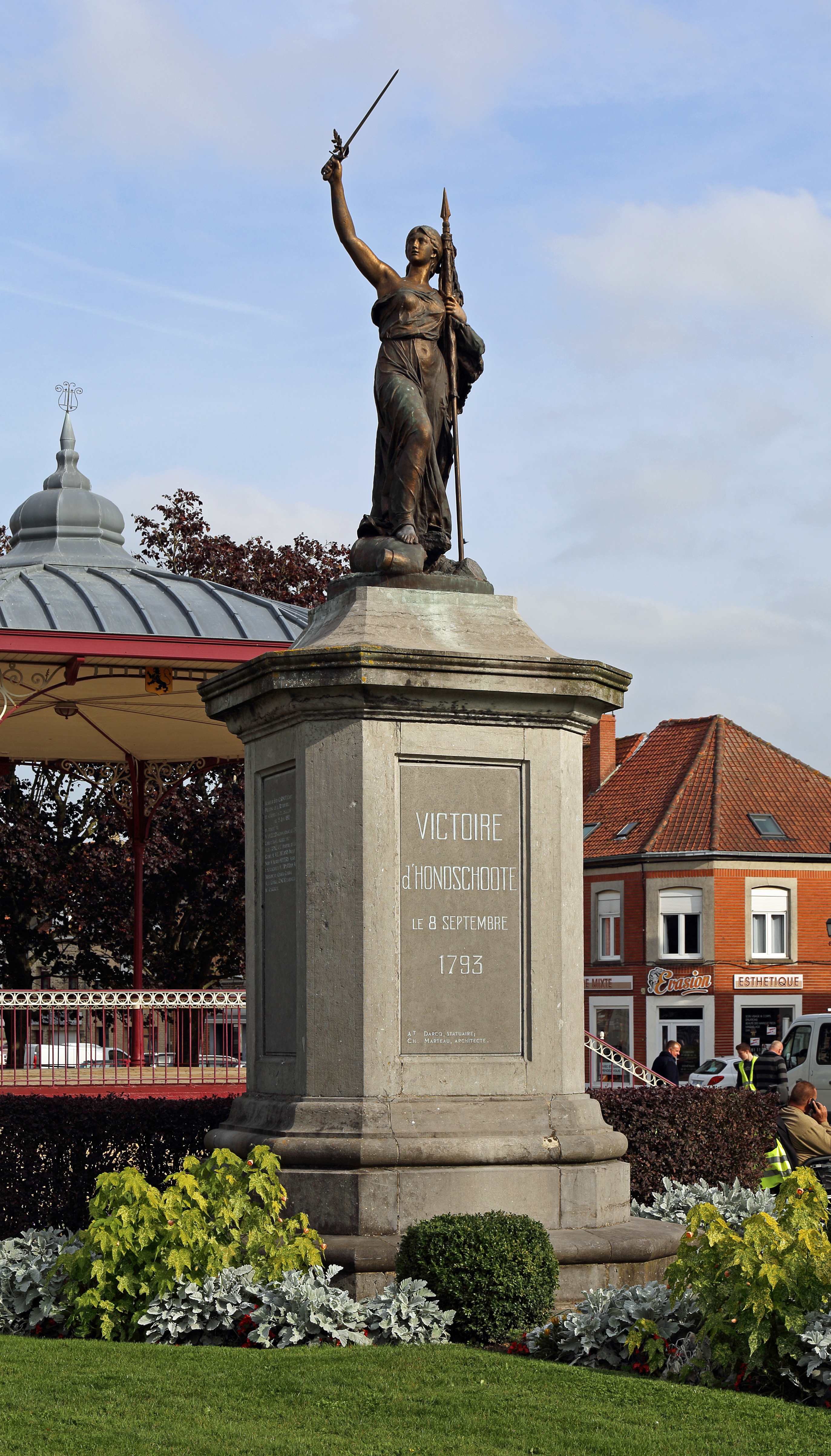 Hondschoote (Nord department, France): memorial for the Battle (and the French victory) of Hondschoote (1793)